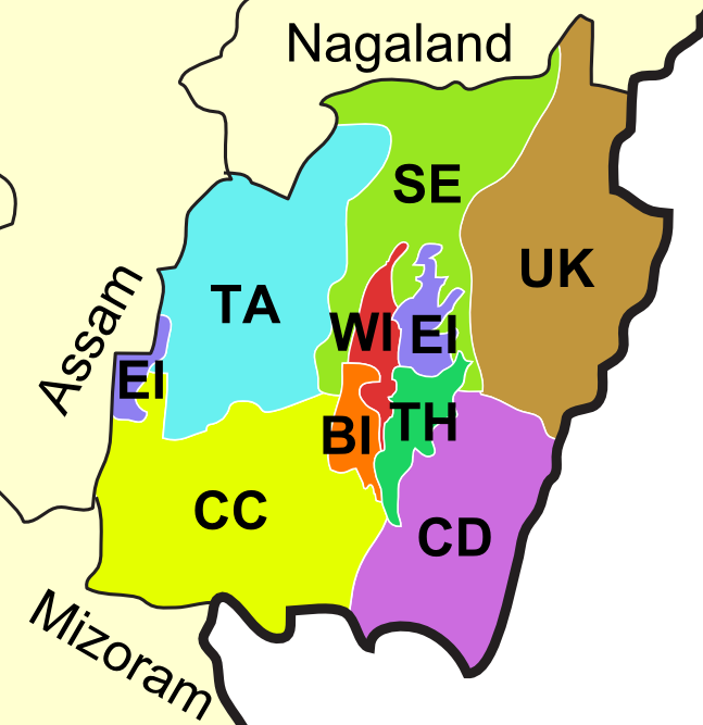 Map of Indian state of Manipur showing 9 districts